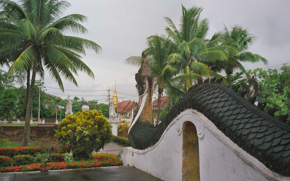 Wat Phumin in Nan city, Nan province, Thailand